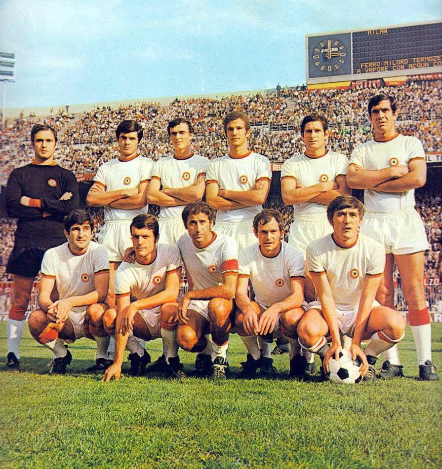 Milan (Italy), San Siro, October 16, 1969. A line-up of A.S. Roma took to the field in the away victory versus A.C. Milan (2-3), Matchday 6 of the Italian Championship 1969–70 Serie A. From left to right, standing: A. Ginulfi, A. Bet, F. Landini, L. Spinosi, R. Cappellini, F. Cappelli; crouched: S. Santarini, F. Capello, J. Peiró (captain), E. Salvori, F. Cordova.